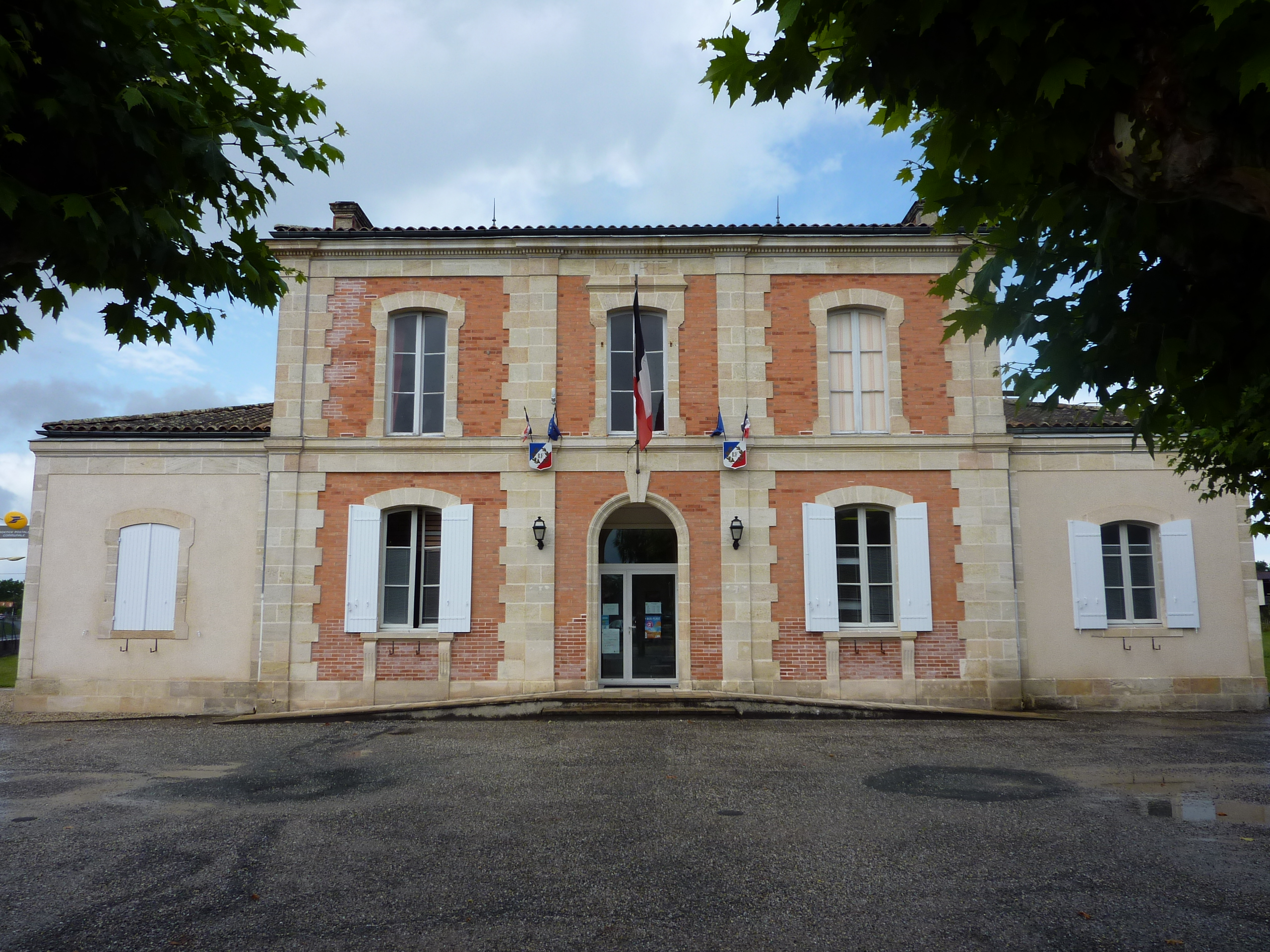 Townhall of Salaunes (Gironde)